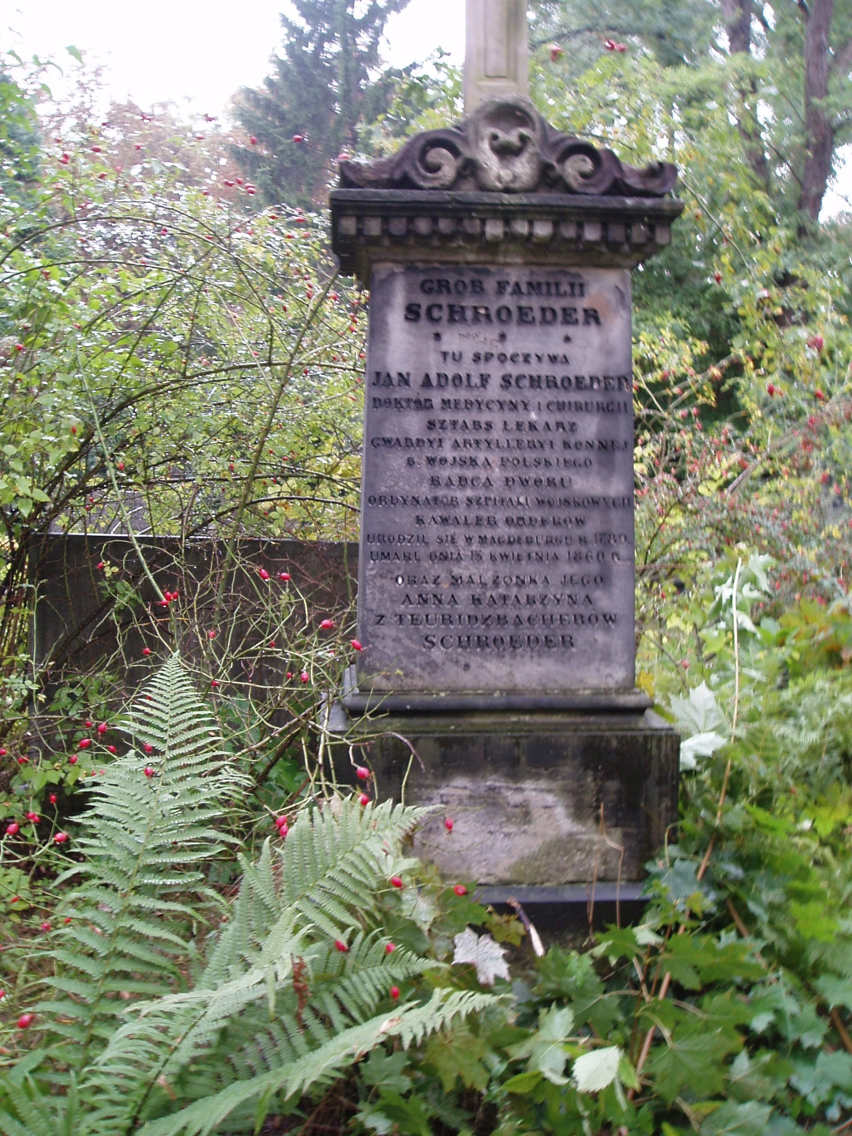 Schroeder family tomb, lutheran cemetery in Warsaw